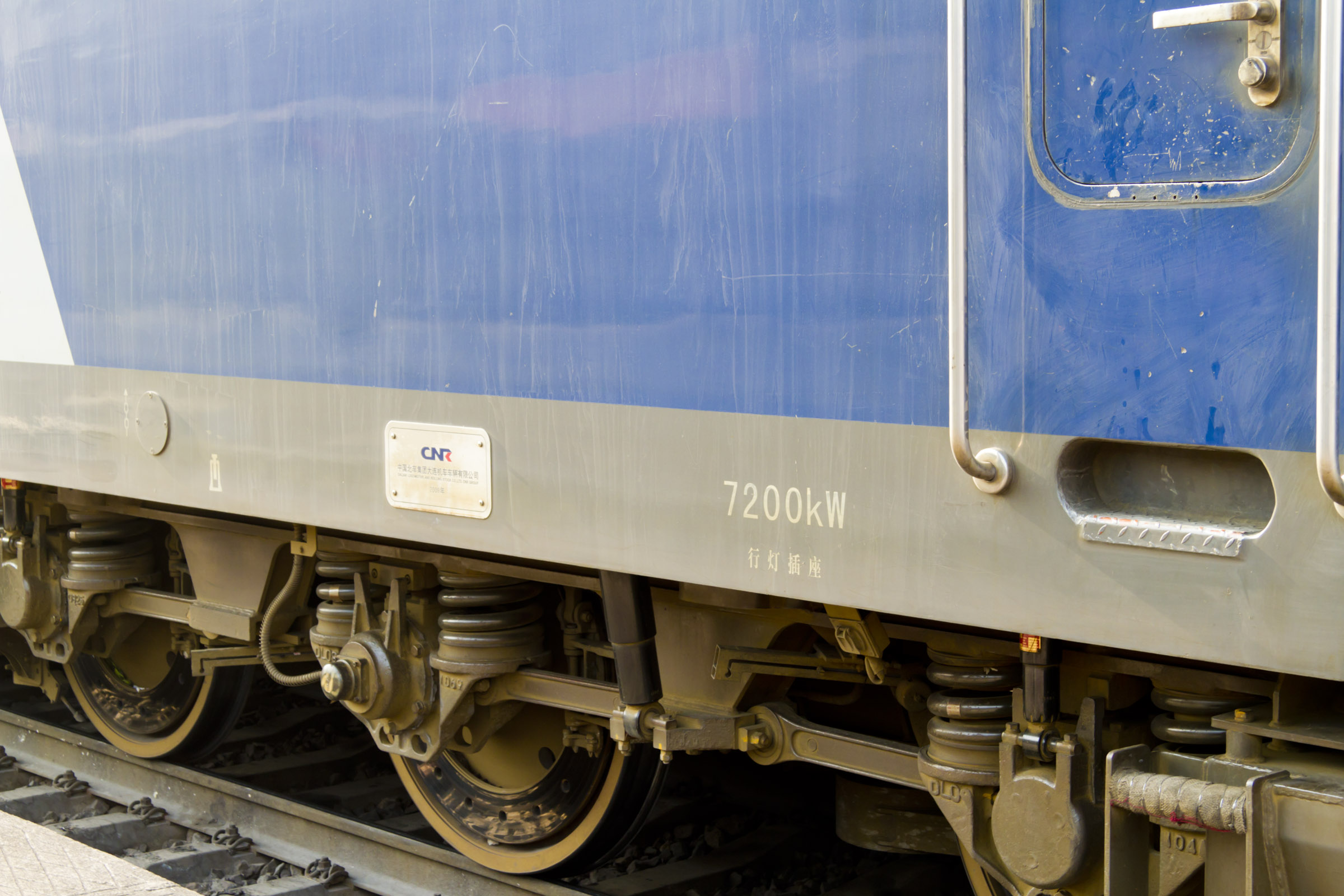 China Railway HXD3 Locomotive Bogie